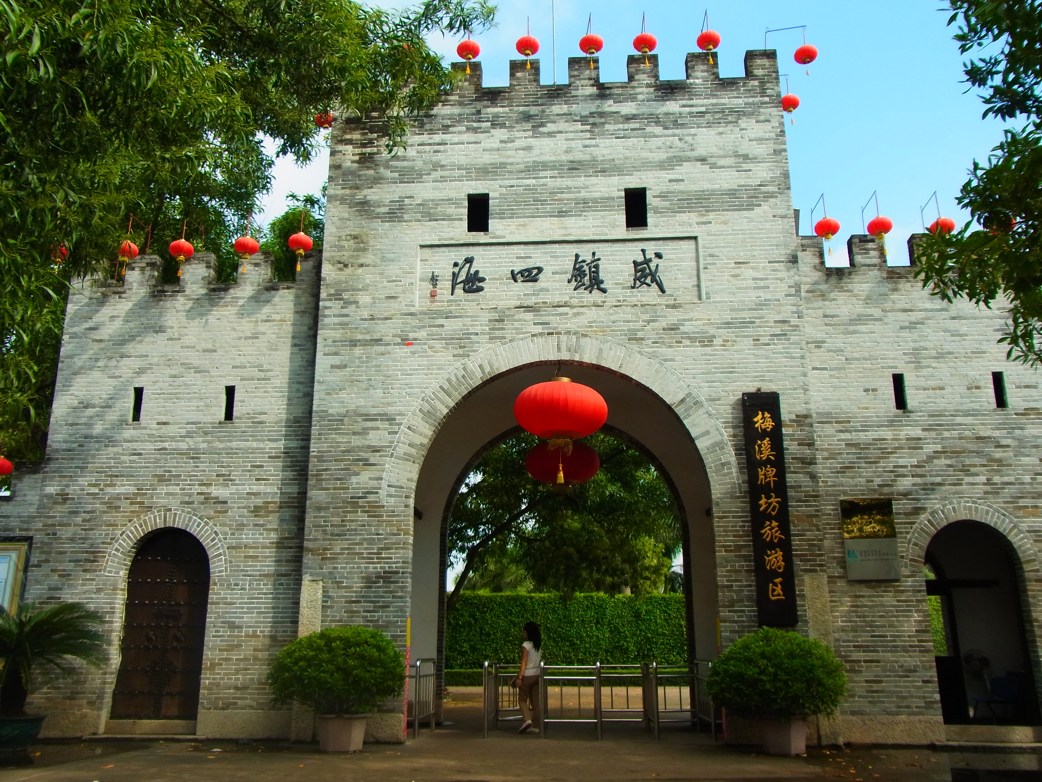 Meixi Royal Stone Archways Tourist Area